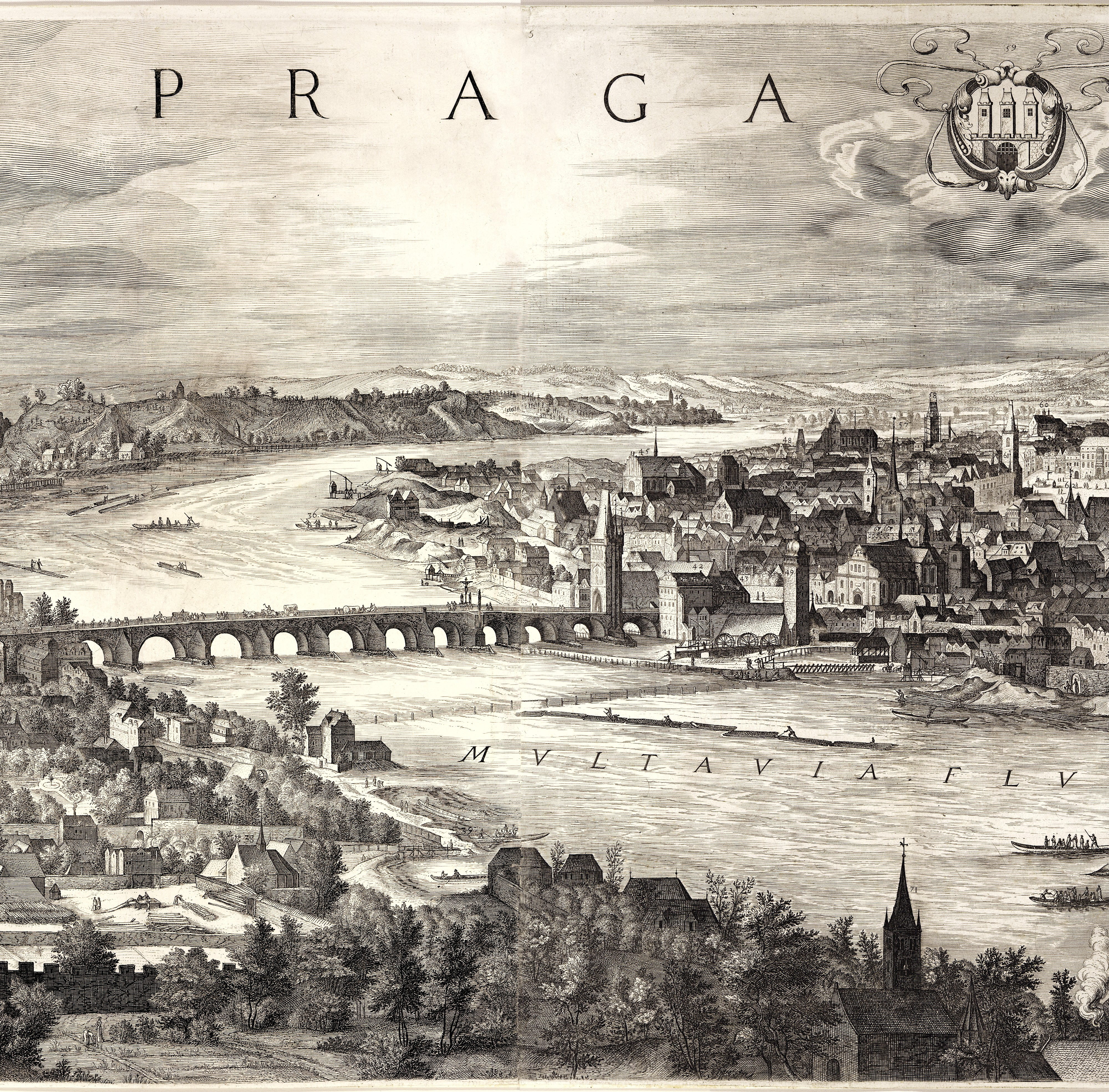 Print; Prints